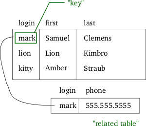 Relational Model for databases, highlighting the Key. The image is of two tables, one storing "login," "first name," and "last name." Another table stores "login" and "phone number." The image illustrates using a unique key to link a phone number to a first and last name. Image created Sodipodi.